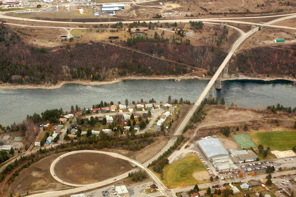 The following is the author's description of the photograph quoted directly from the photograph's Flickr page."over Castlegar. 091109-54 "